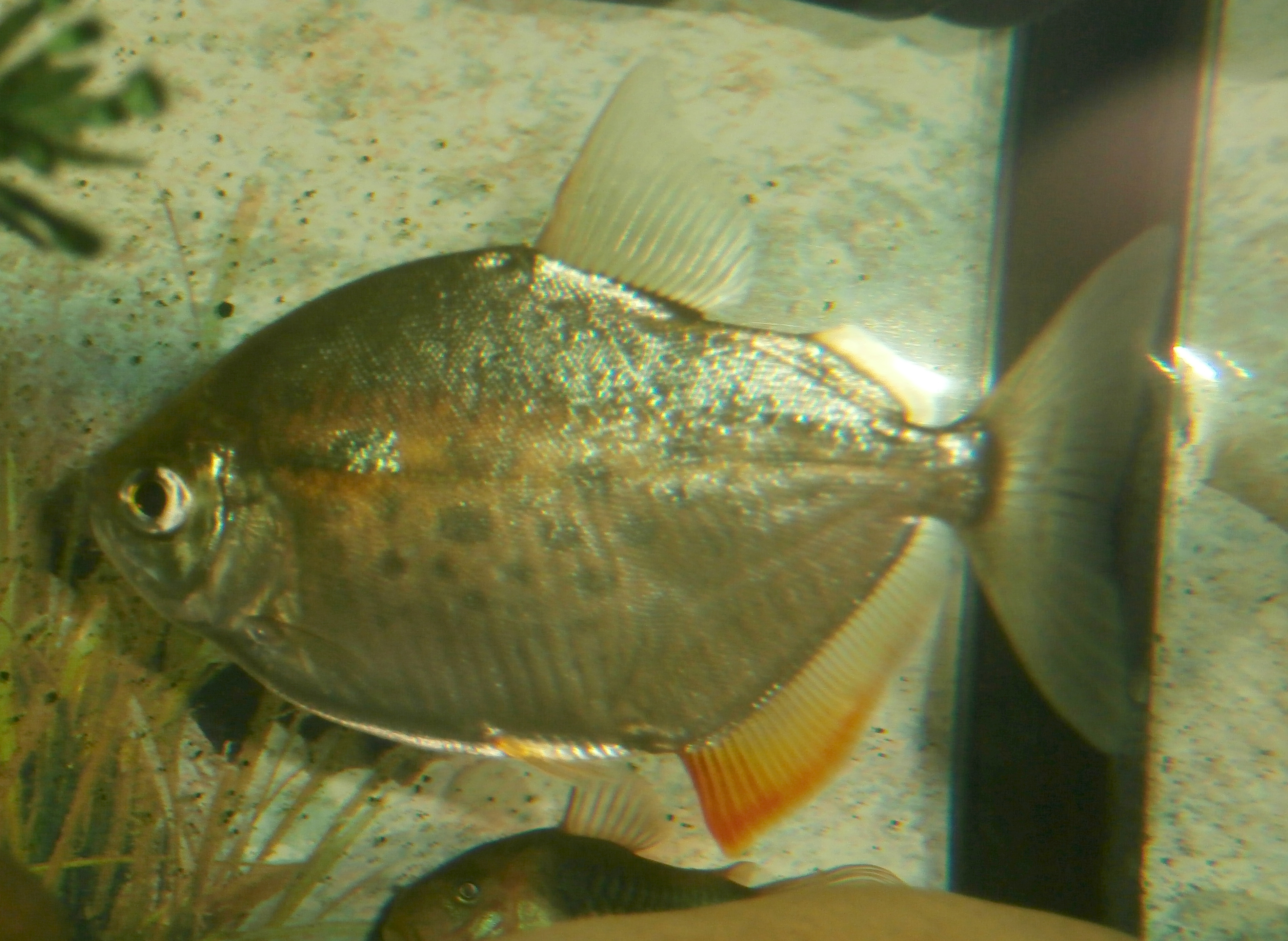 Male Metynnis lippincottianus